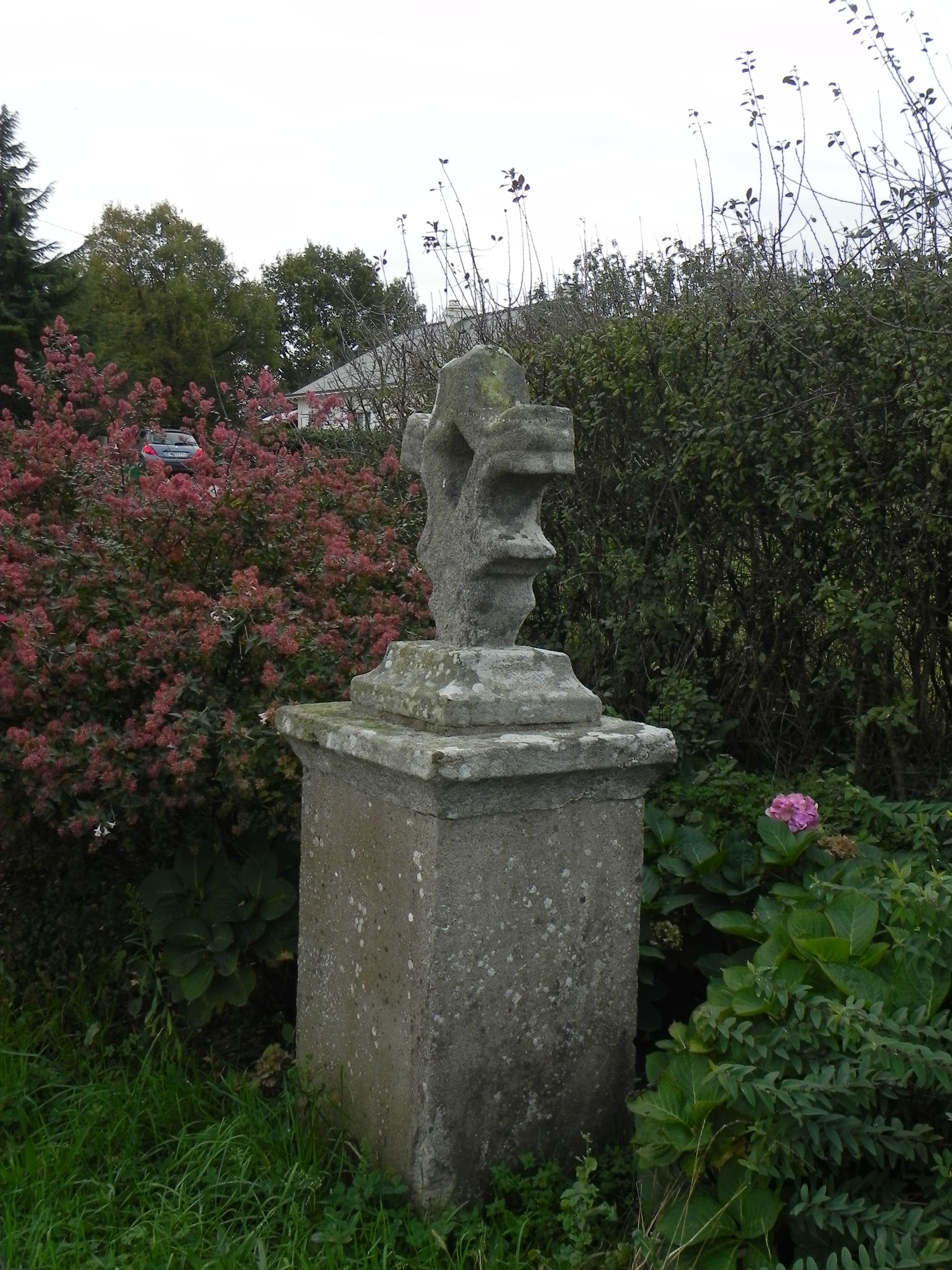 Croix de la Ville au Jau, Saint-André-des-Eaux, Loire-Atlantique, France.